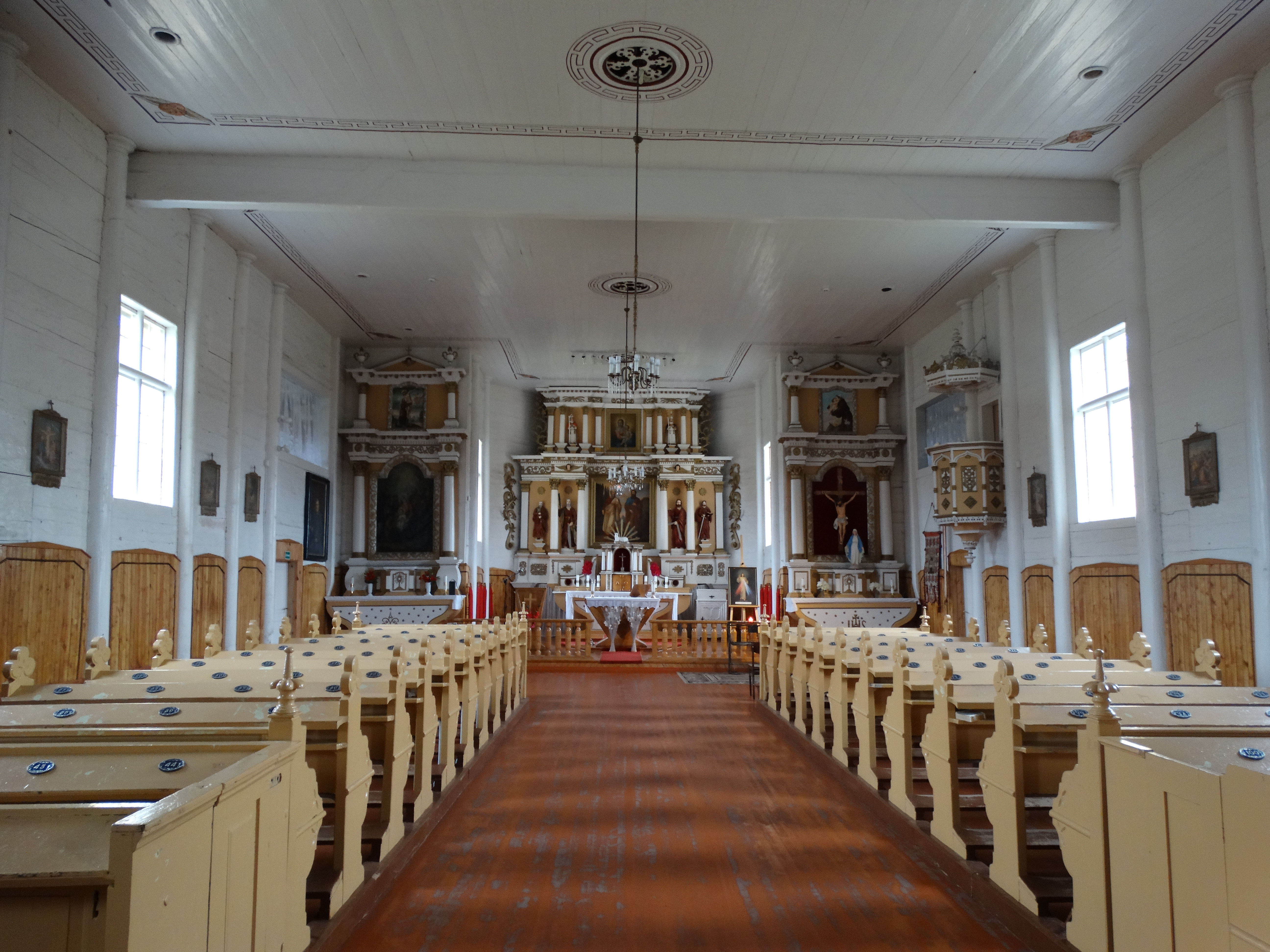 Church of Saints Simon and Jude Thaddeus the Apostles in Barstyčiai, interior, Skuodas District, Lithuania